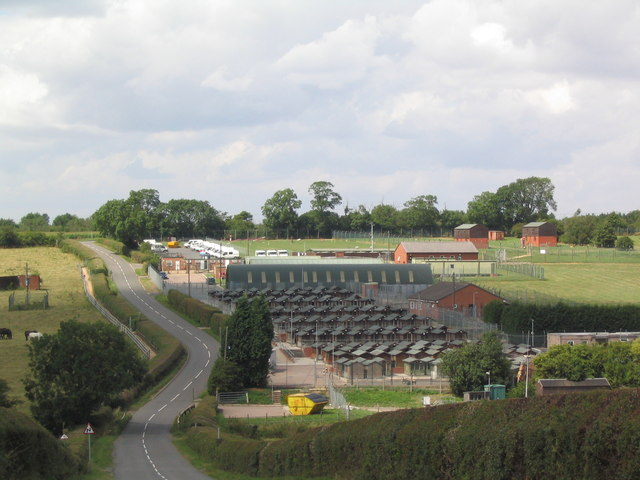 Defence Animal Centre, Welby Lane, Melton Mowbray. Training horses and dogs for the MOD. The kennels are visible to the left of the road.